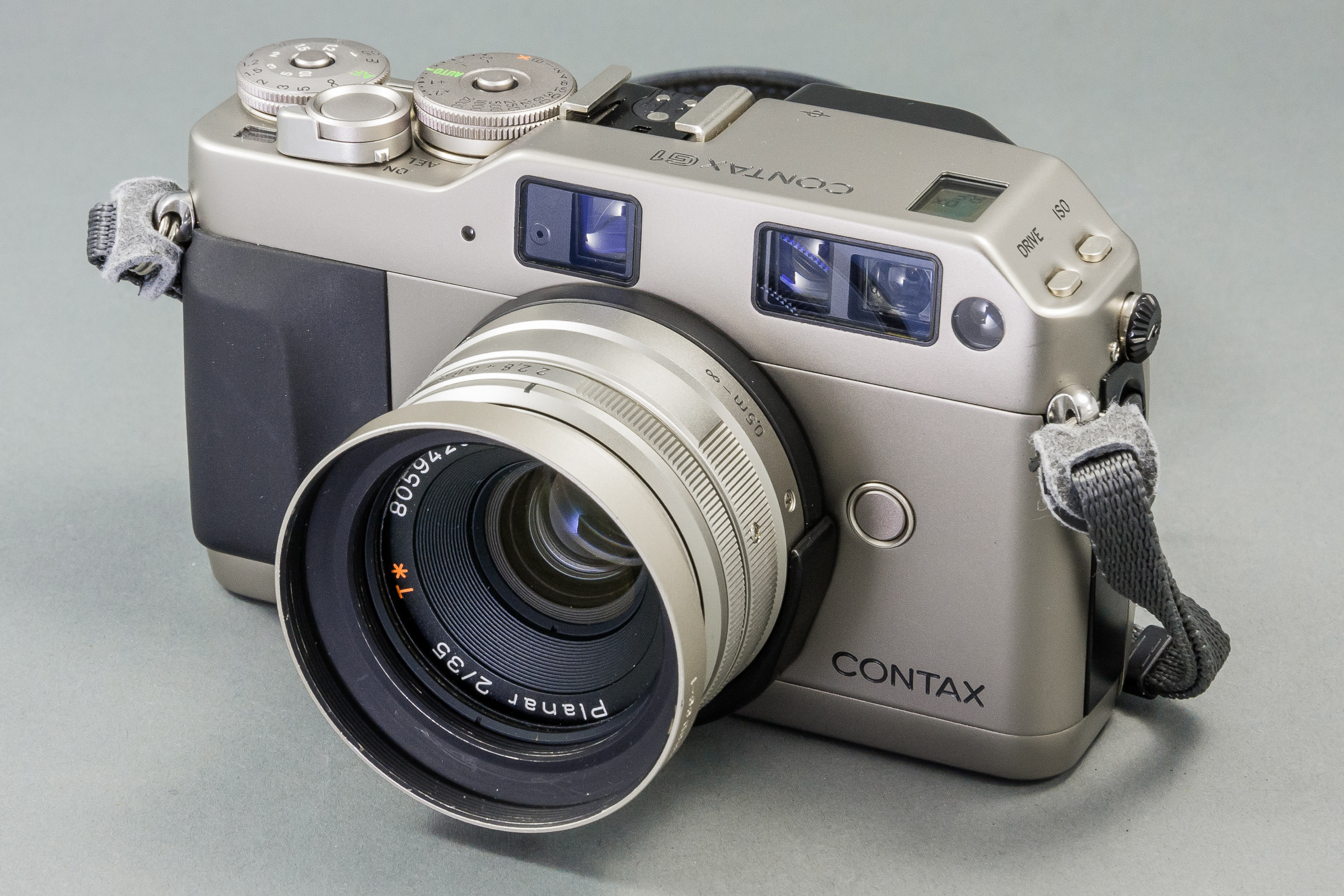 Contax G1 35mm rangefinder camera